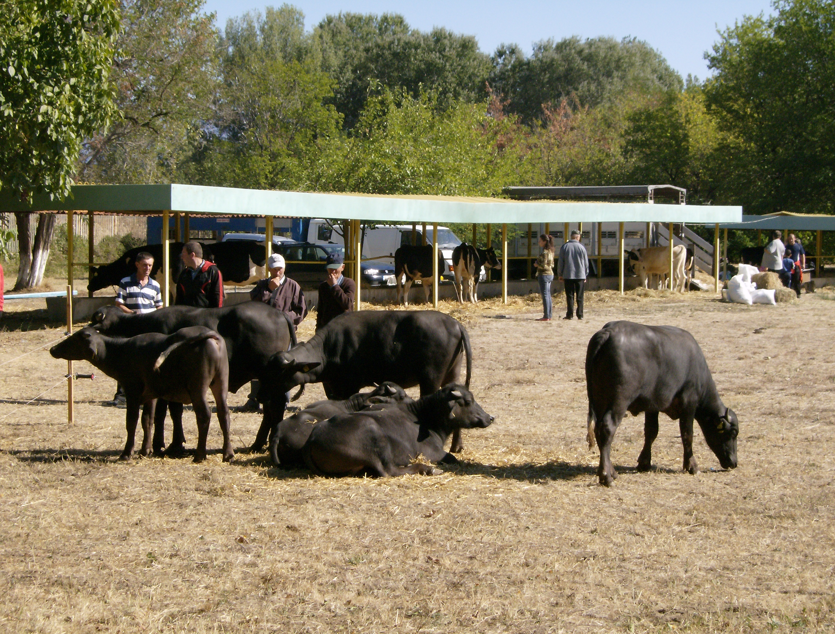 Bulgarian Murrah